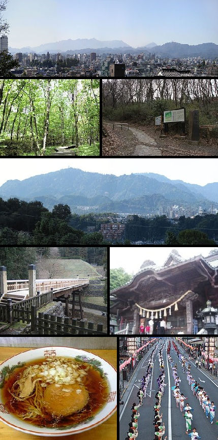 Hachioji montage